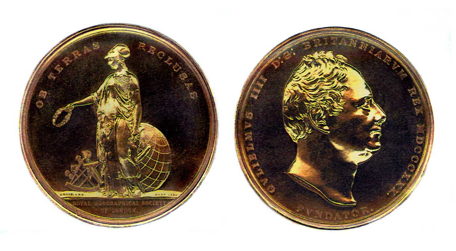 Royal Geographic Society Founders' medal awarded to Kenneth Mason "for his connection between the of surveys of India and Russian Turkestan, and his leadership of the Shakshagam Expedition."